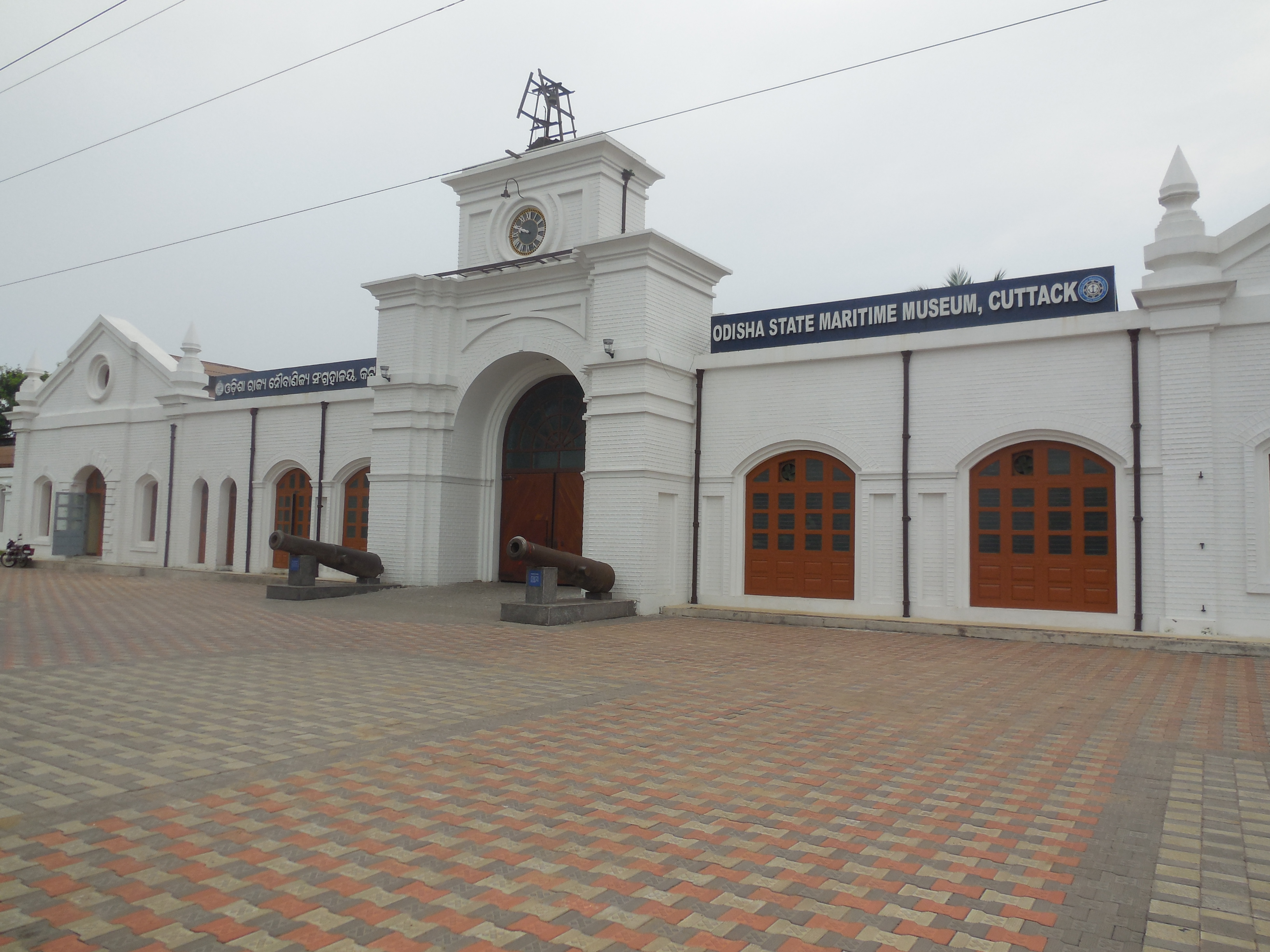 The Odisha State Maritime Museum, showcasing the rich maritime history and traditions of the State.